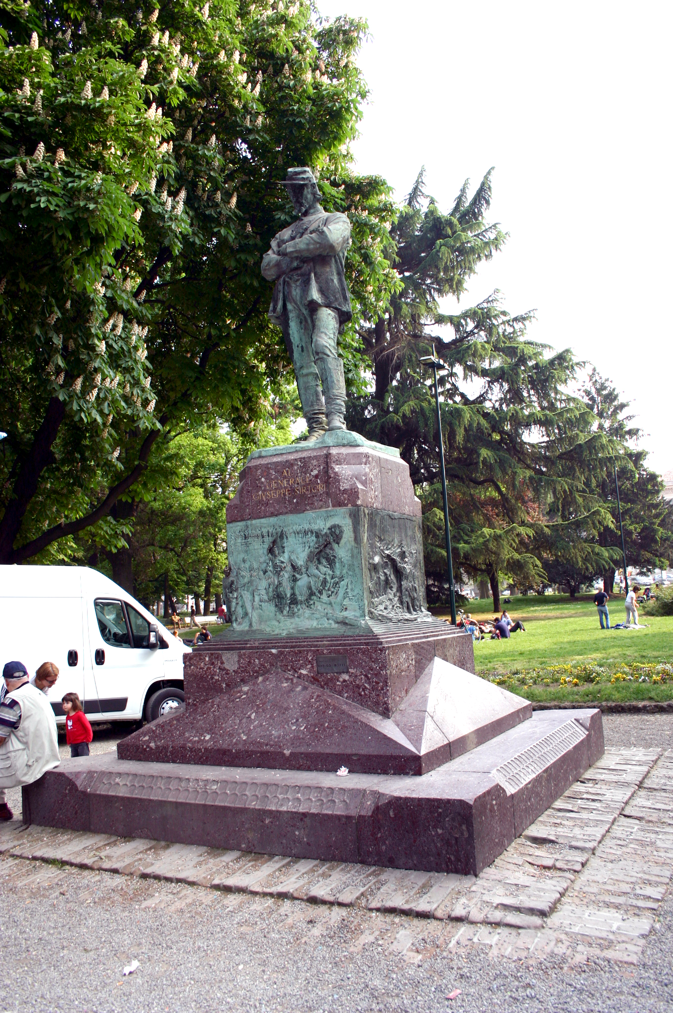 Monument by Enrico Butti for the Garibaldine general Giuseppe Sirtori (1892), in the "Giardini pubblici di Porta Venezia" gardens, in Milan, Italy. Picture by Giovanni Dall'Orto, April 22 2007.